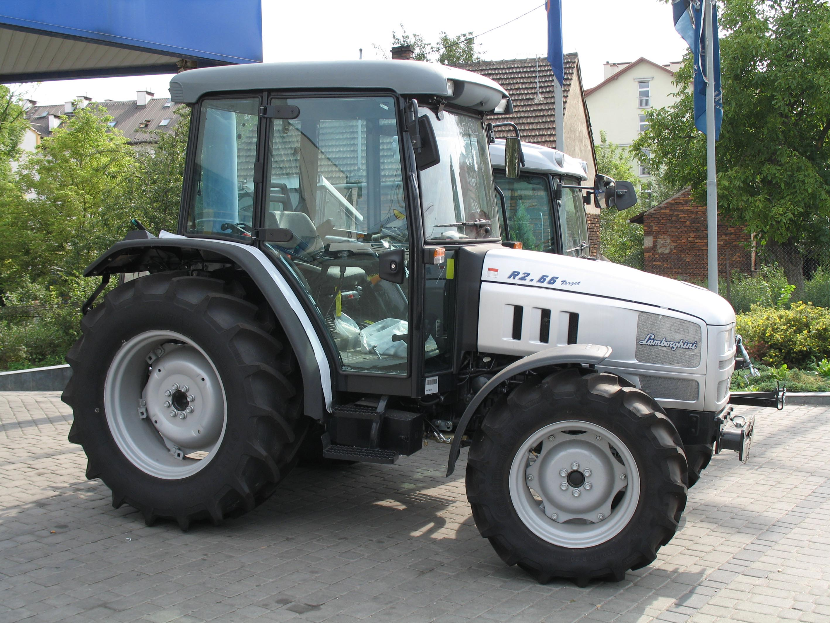 Lamborghini R2.66 tractor in Kraków, Poland.